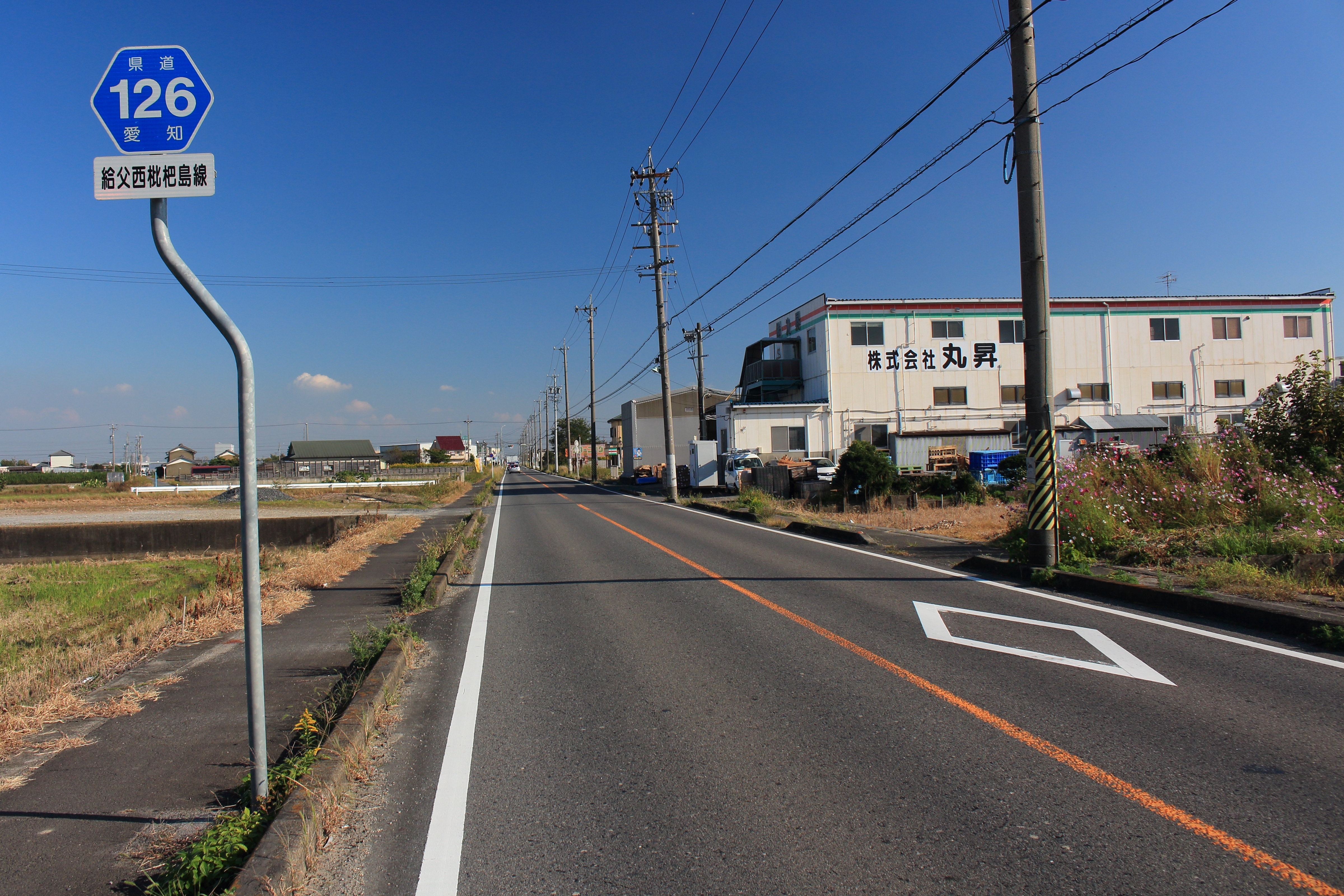 Aichi Prefectural Road Route 126 in Aisai, Aichi prefecture, Japan.